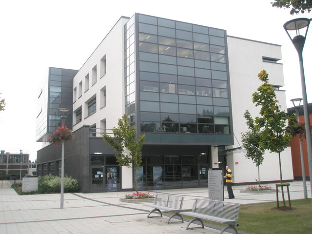 Information board at Brunel University